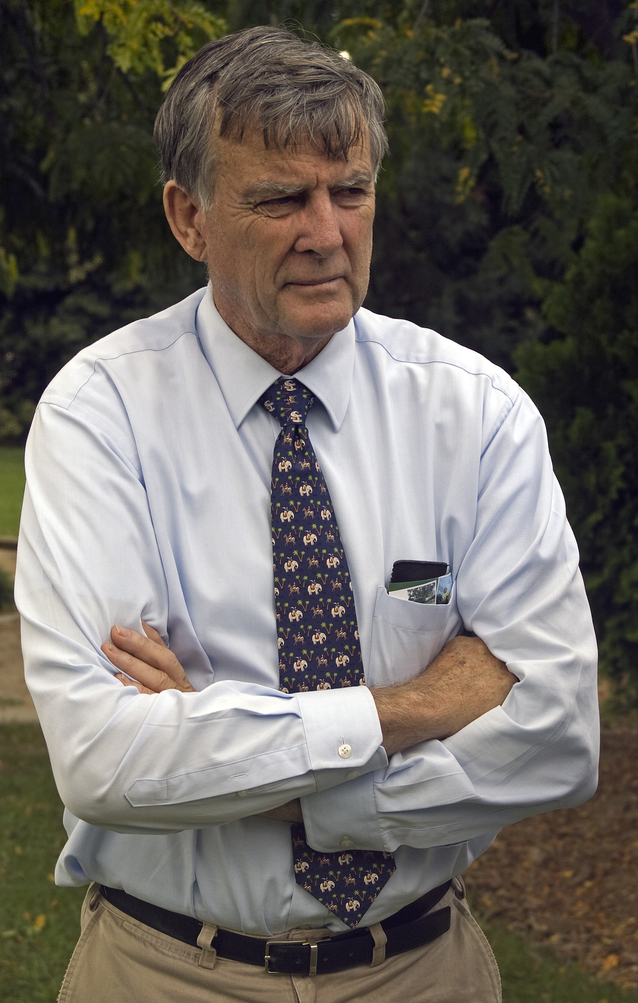 Senator Bill Heffernan.